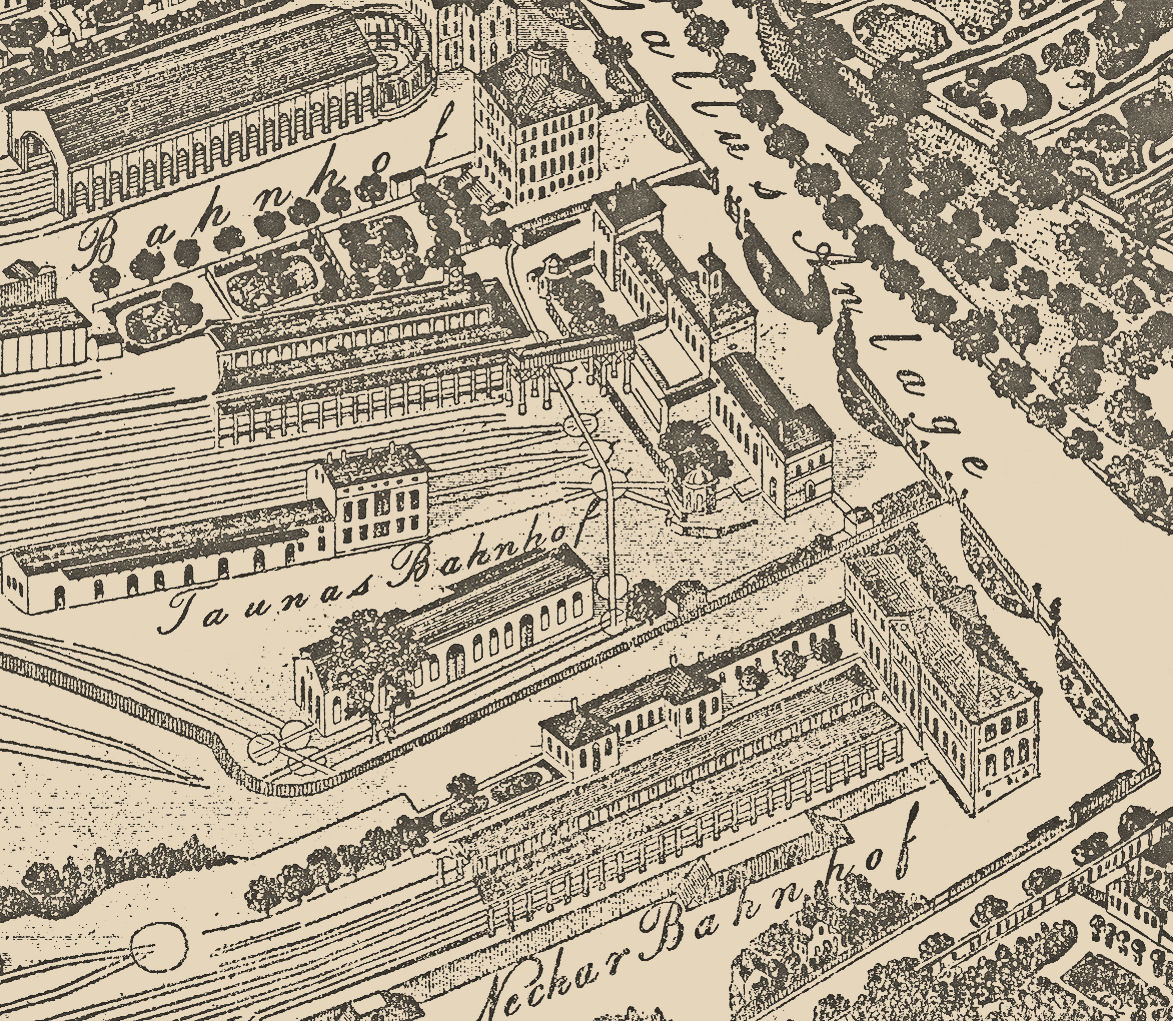 Details of the map of the city of Frankfurt am Main, Germany: the former western train stations